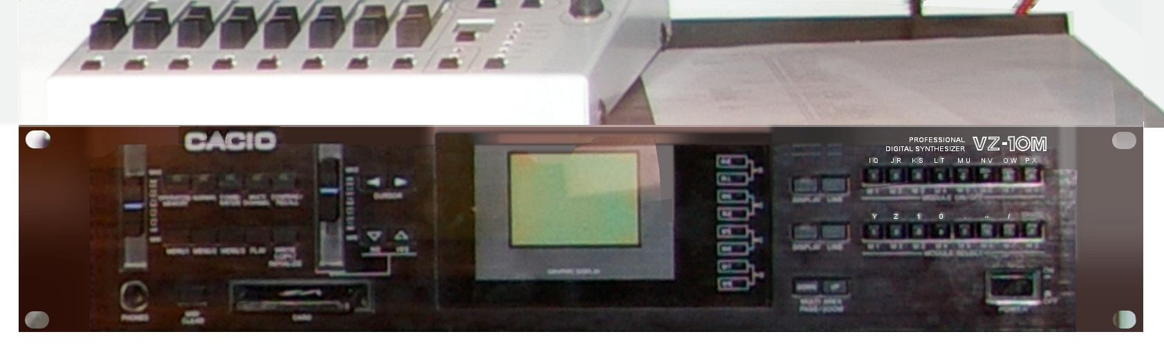 Casio VZ-10M iPD Synthesizer Module Note: Casio VZ-10M is known to be also sold as Hohner HS-2/E with silver panel. References HOHNER HS-2/E Phase Distortion (iPD) Synthesizer. MatrixSynth (2011-01-10).